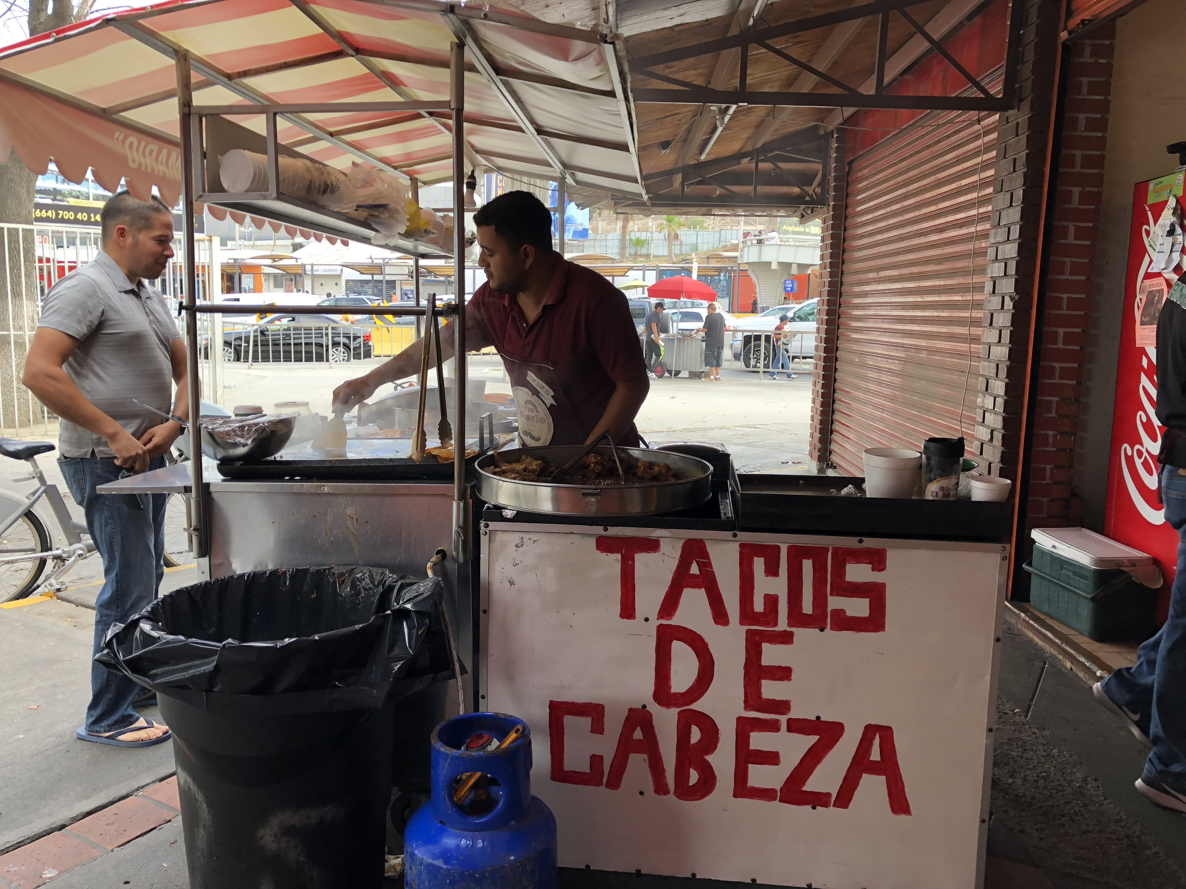 A taco stand serving cabeza.